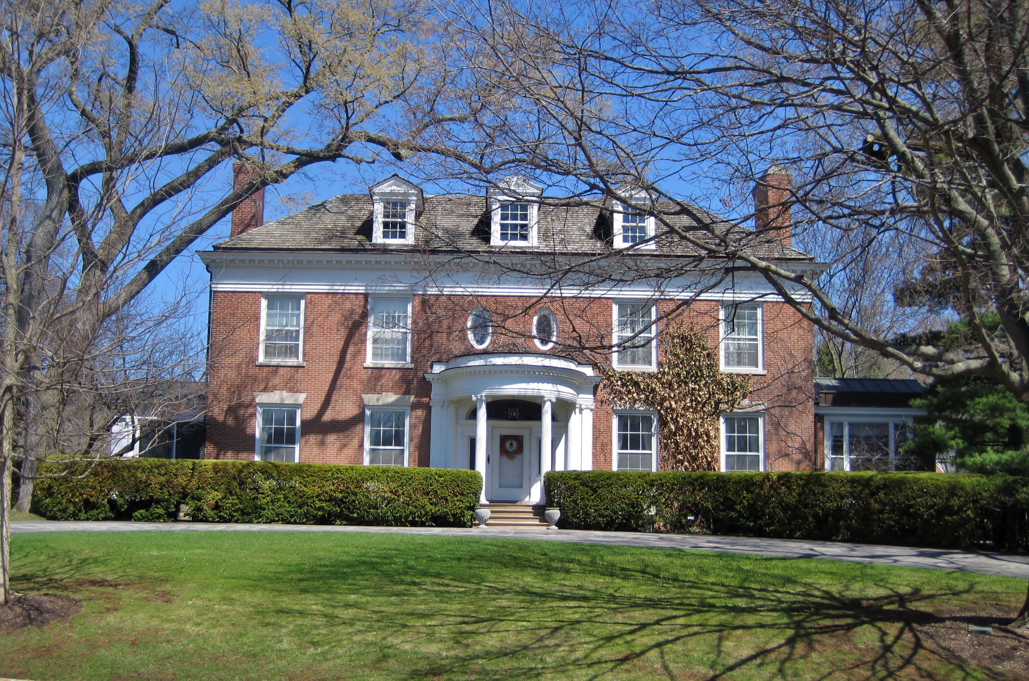 Lost Rock, William Henry Smith's estate in Lake Forest, IL